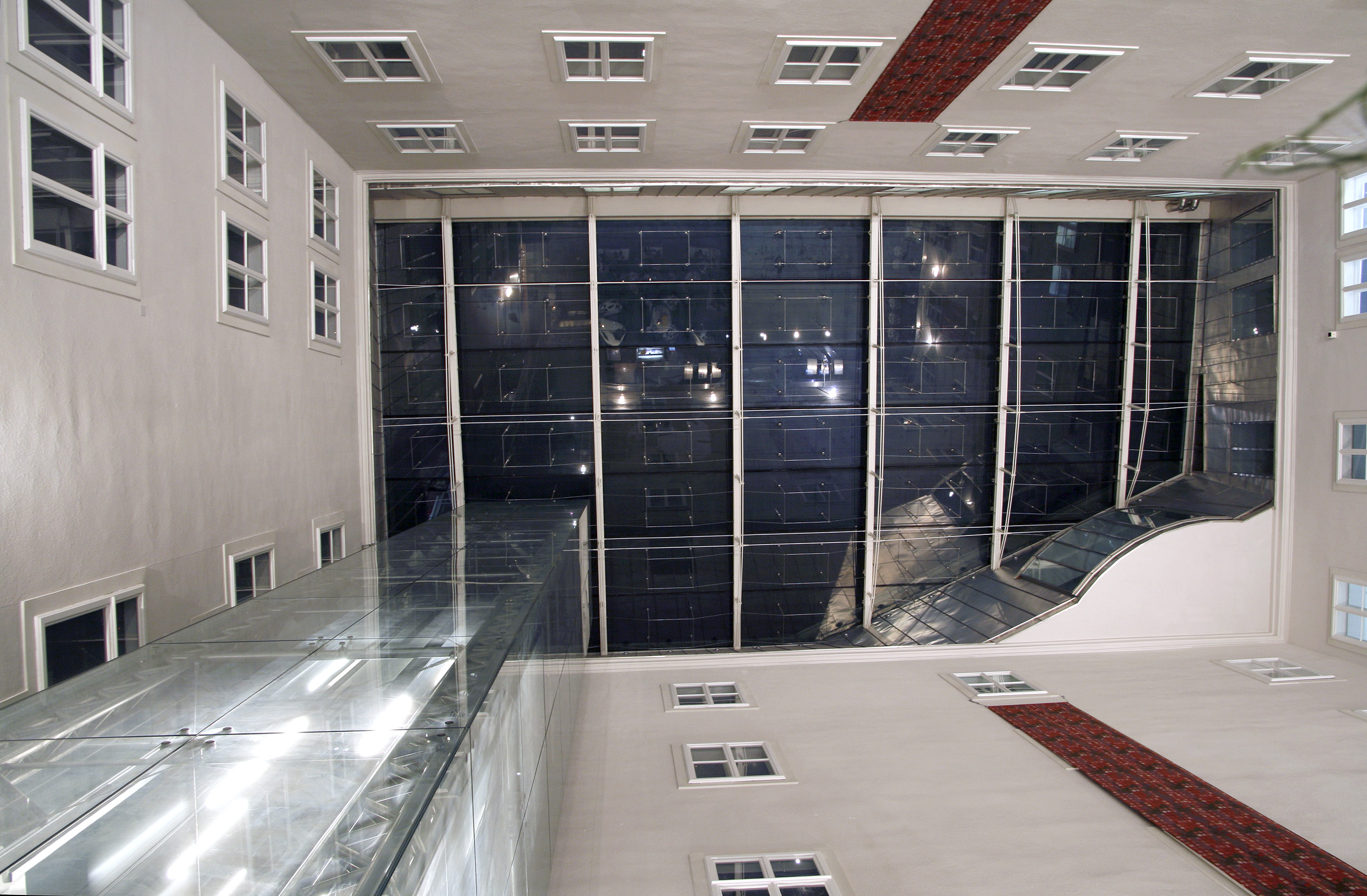 The courtyard of the Haus der Musik ('House of Music', Palais Erzherzog Karl) in Vienna, Austria.